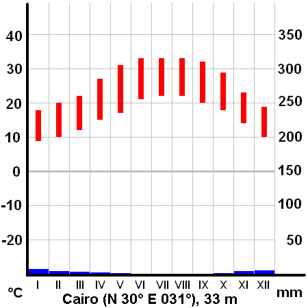 Climate diagram of Cairo, Egypt max. and min. temperature and total precipitations per month drawn by Miaow Miaow, March 2005